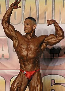 Charalambos Sarakinis, greek bodybuilder